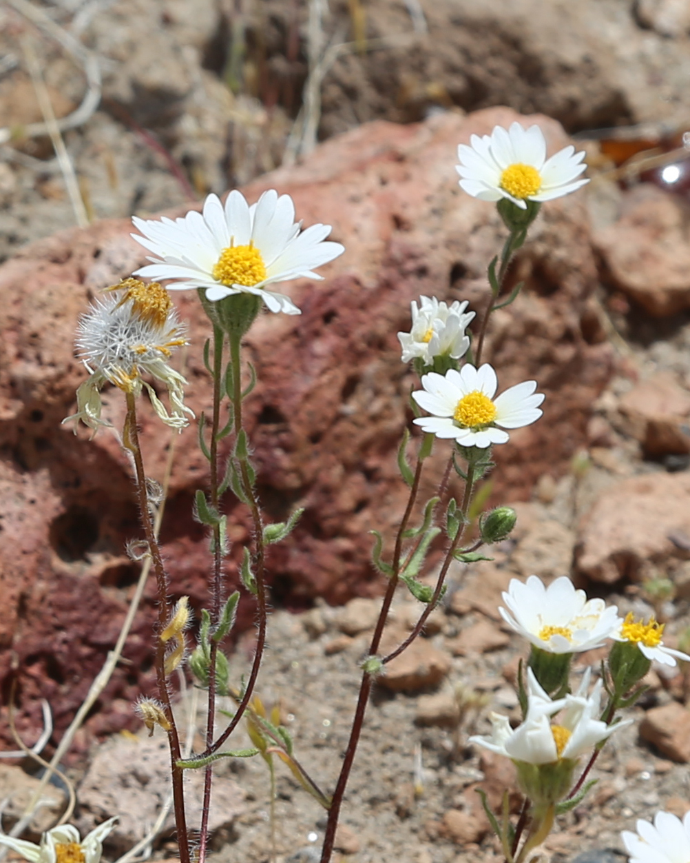 White layia, or whitedaisy tidytips, (Layia glandulosa) flower stems and seedhead. The disc flowers form a deep yellow mound; the 3-14 (typically 5) ray flowers are white, broad, 3-lobed, and do look "tidy"; the seedhead here at left shows a round globe with some seeds still at the top; the stems and the opposite leaves are covered in glandular hairs. At 5,500 ft (1,700 m) between Paradise and Swall Meadows, Mono County, California, in the Eastern Sierra Nevada.